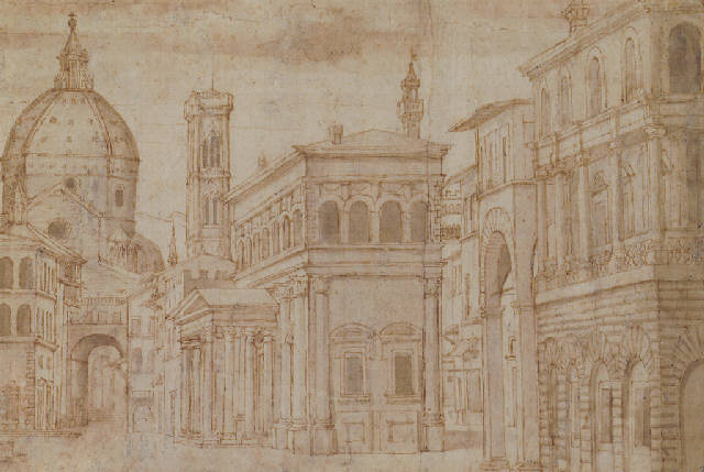 A capriccio of Florence